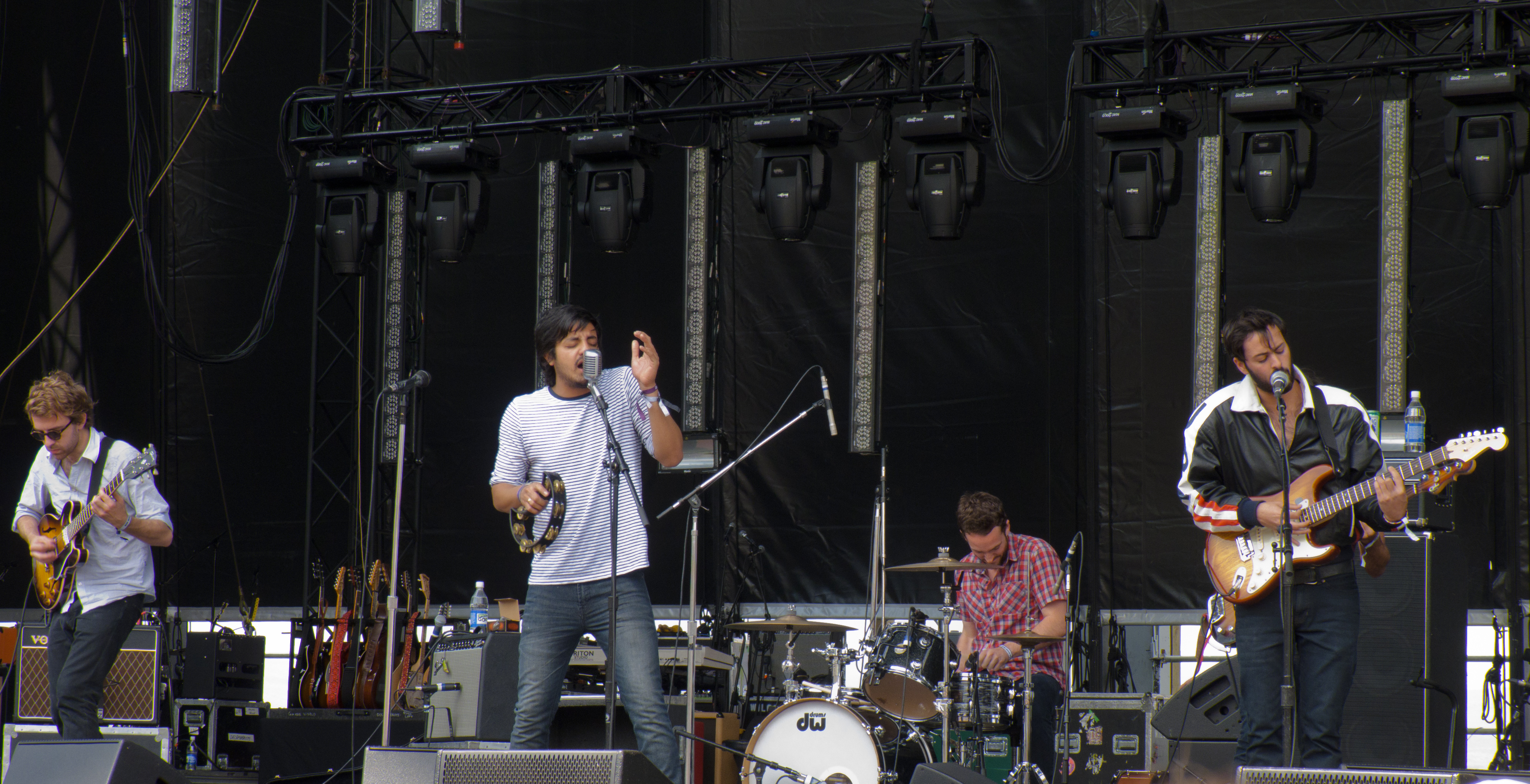 Young the Giant playing at Sasquatch Music Festival 2011